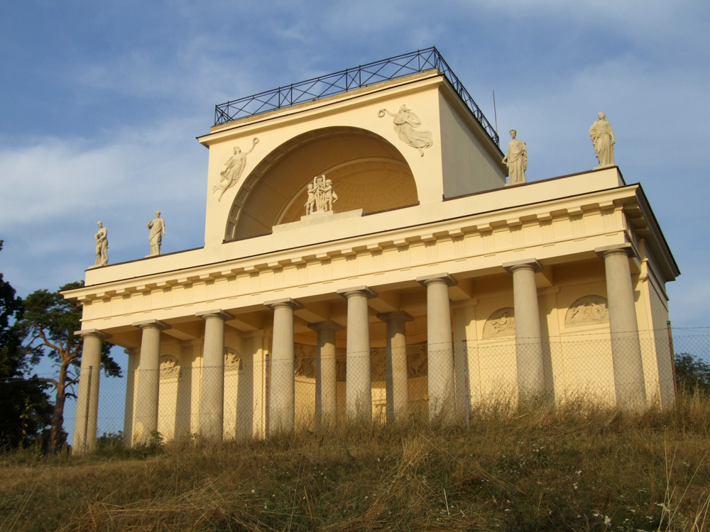 Apollonuv chram, Valtice, Czech Republic